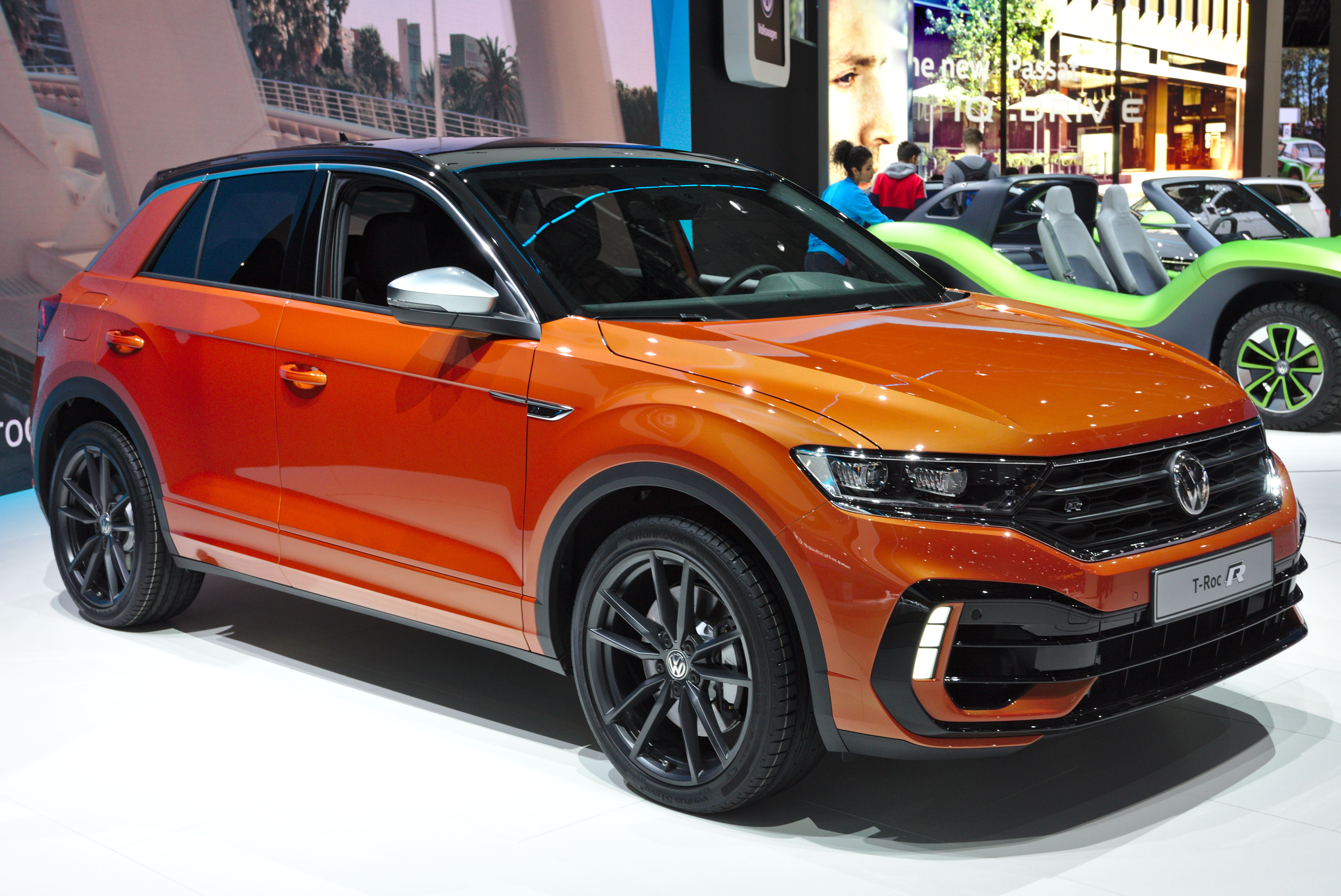 VW T-Roc R at Geneva Motor Show 2019